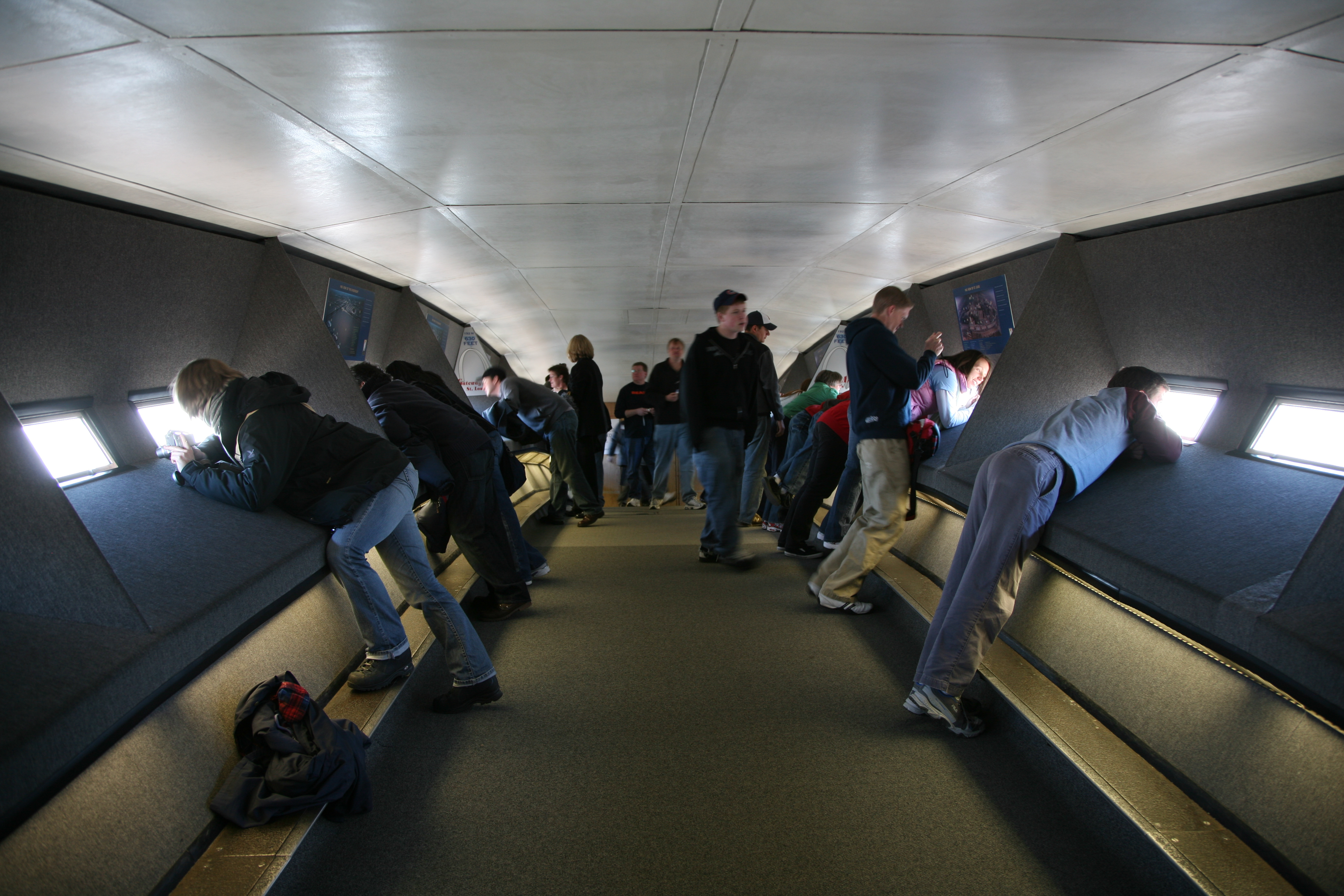 Observation room on top the Gateway Arch, St. Louis